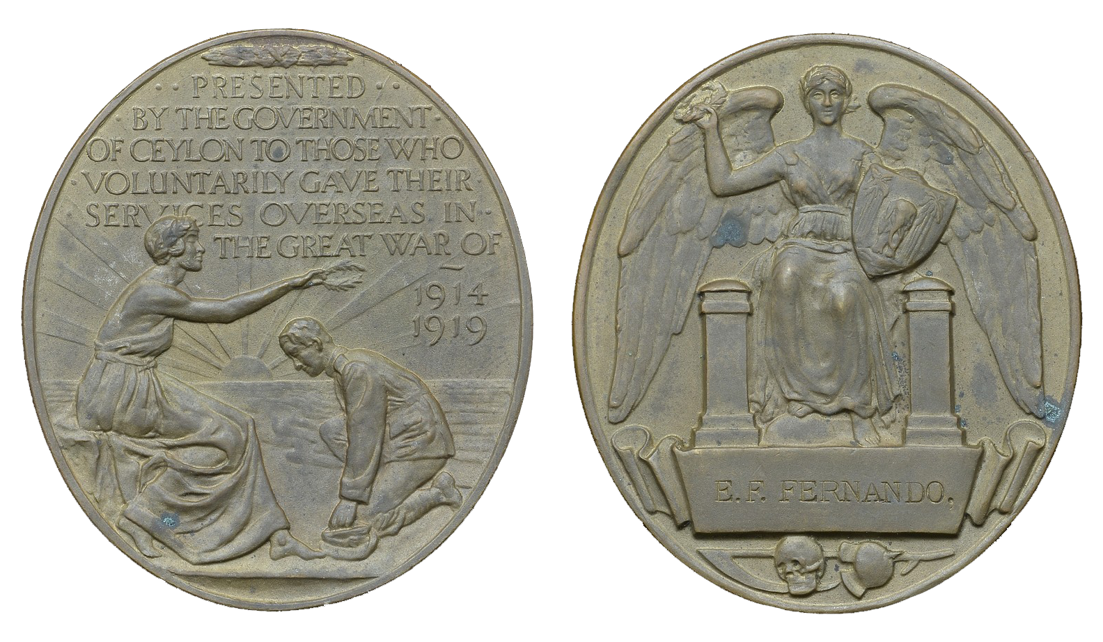 Obverse and reverse faces of the Ceylon Volunteer Service Medal (also called the Government of Ceylon War Medal), awarded to an E. F. Fernando